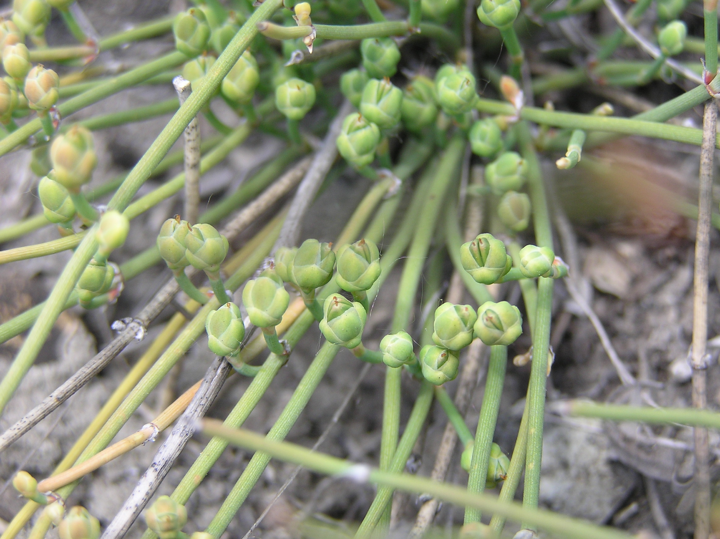 Ephedra distachya (L.), female plant in bloom. Habitat: southern chalk slope. Vicinity of Saratov city, Russia.